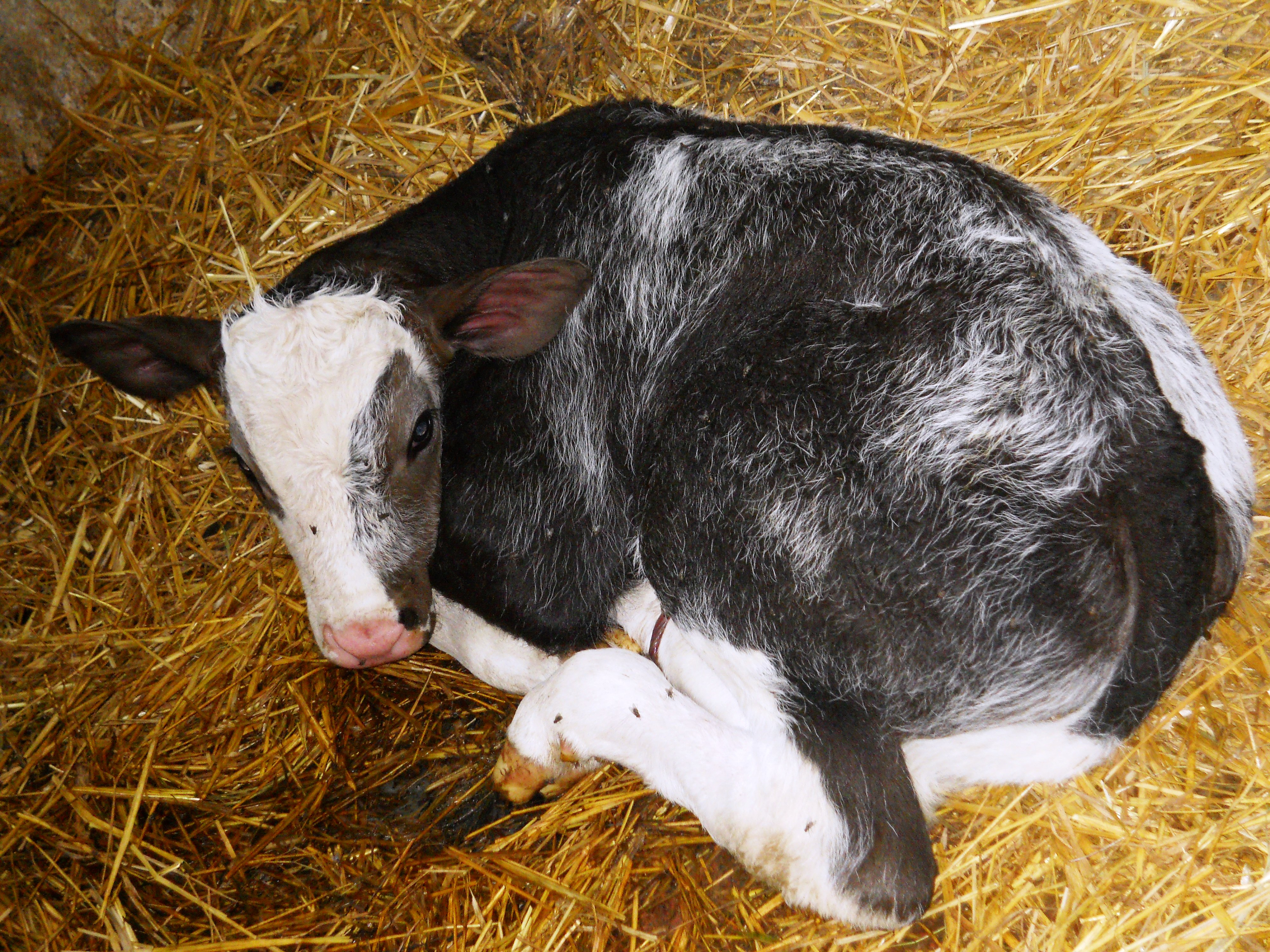 A calf, 5 hours old; Mongrel of Belgian Blue and spotted?? cattle.